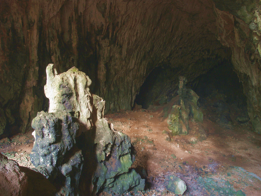 Interior of Skotino cave, near Gouves, Crete